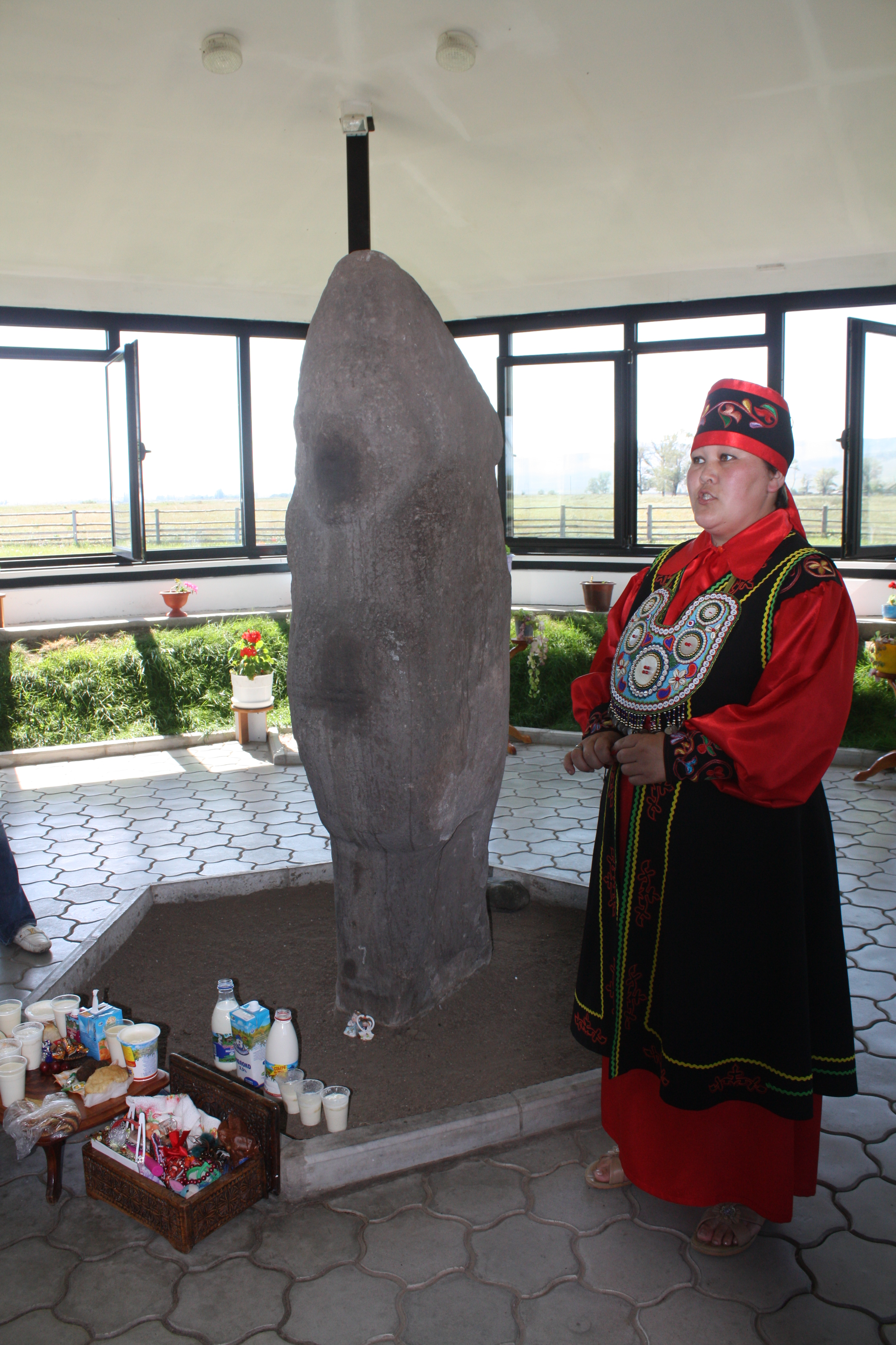 Ulug Khurtu-yakh tas - an ancient Khakassian idol; from Siberia, Russia